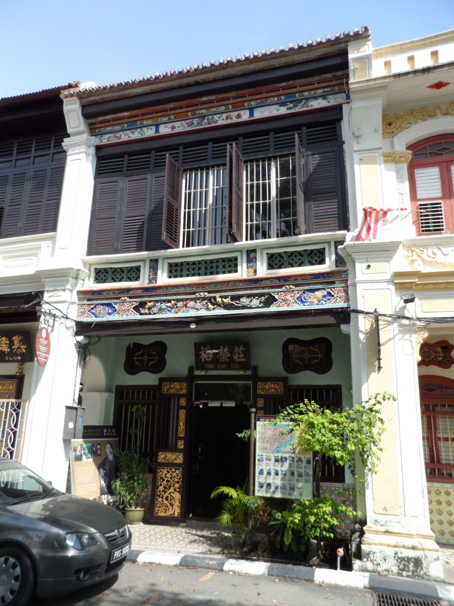 Sun Yat-sen Penang Base, George Town, Penang, Malaysia